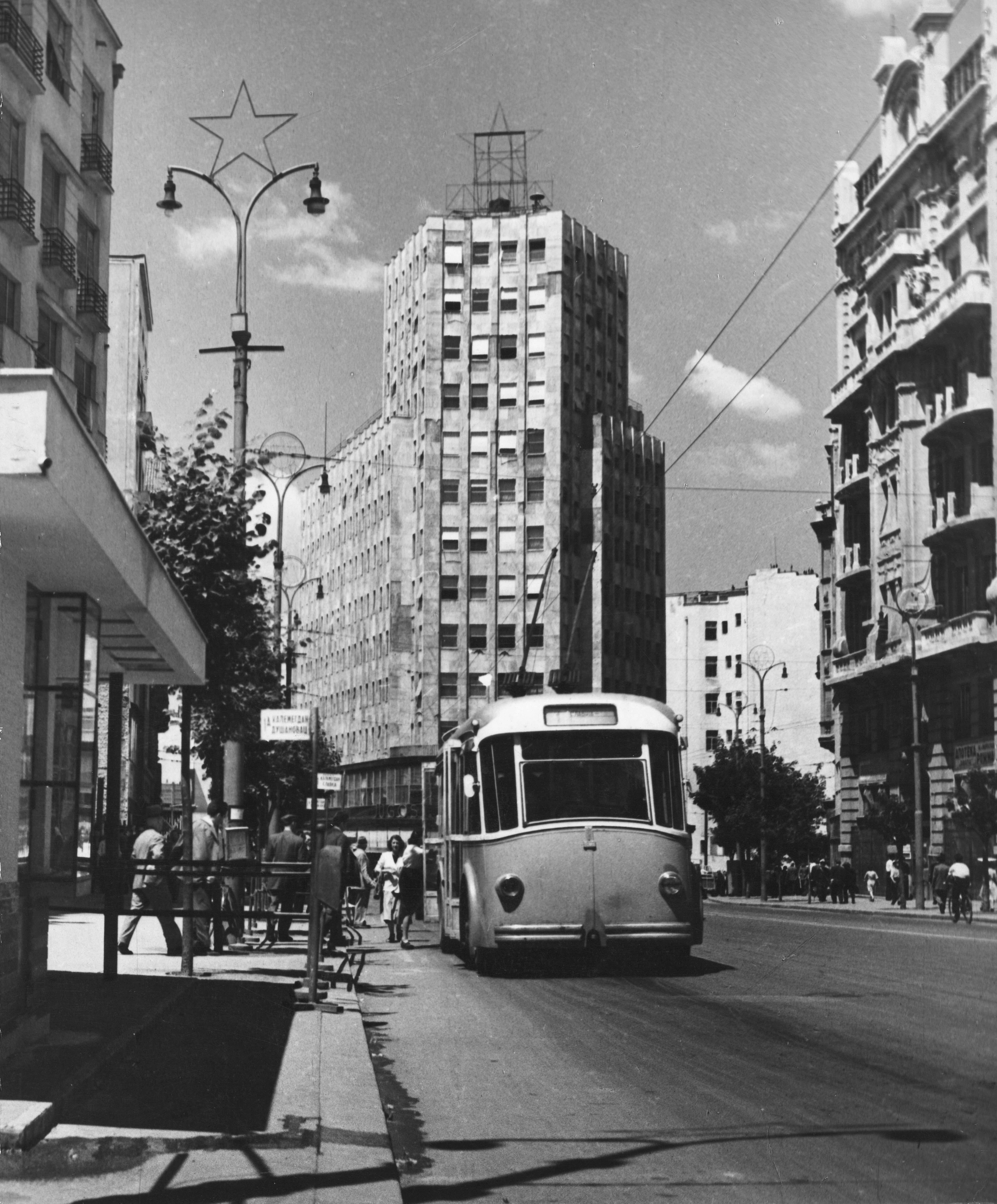 Palace Albanija in Belgrade, designed by architect Miladin Prljević.